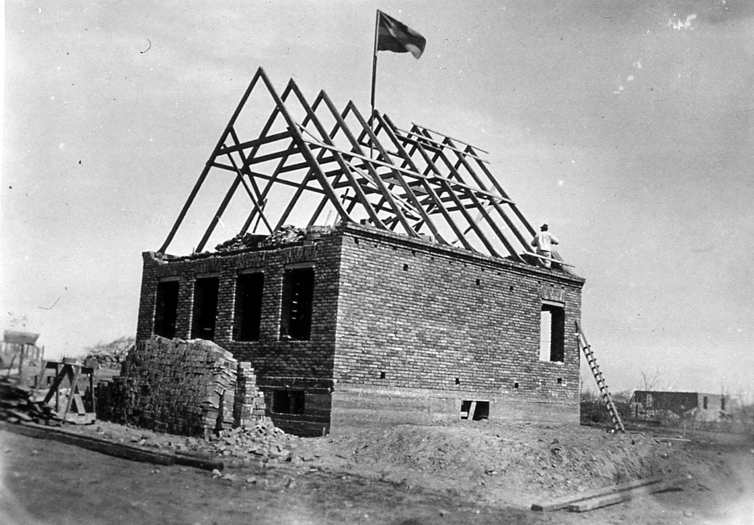 Rosenberg's house under construction on the street Sävstaholmsgatan 5 in the neighbourhood Rostorp in Malmo 1923.